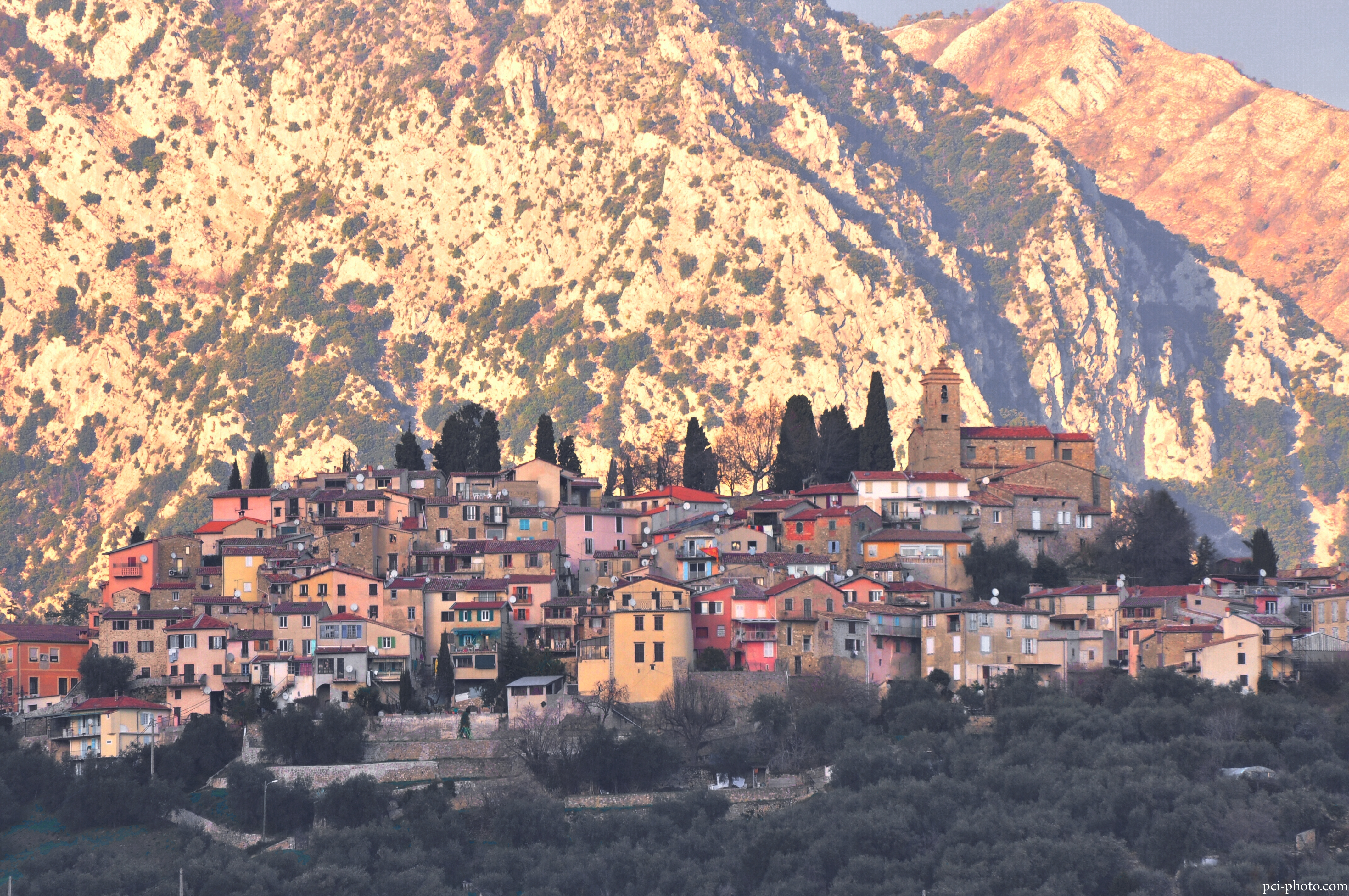 Coaraze